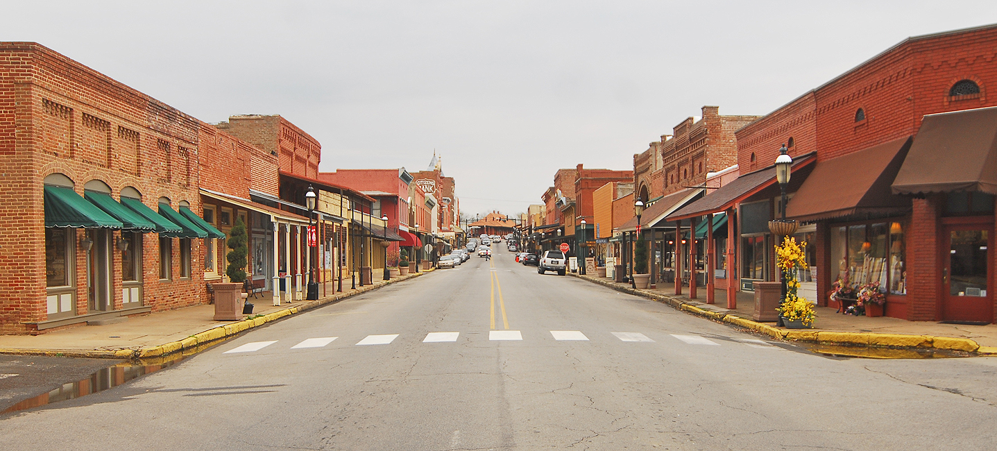 historic downtown Van Buren